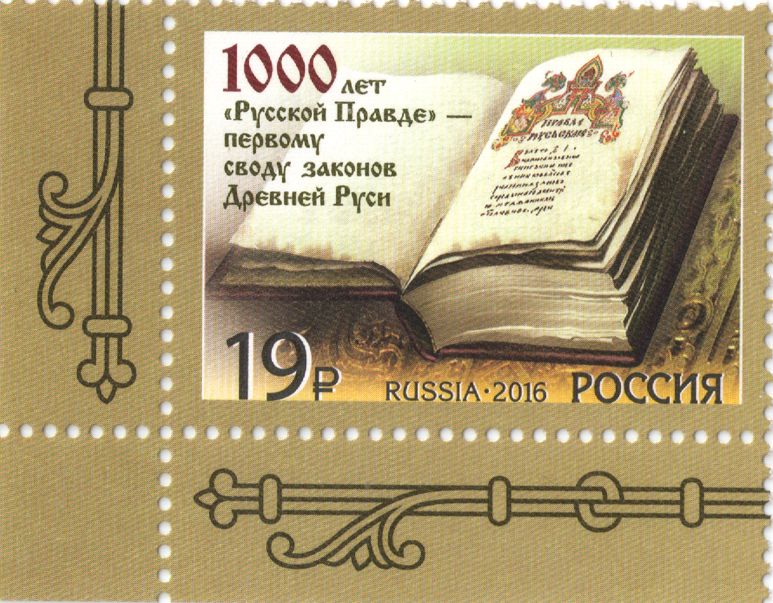 Russian postal stamp of the 1000-year anniversary of Russian Pravda. Cost 19 roubles.